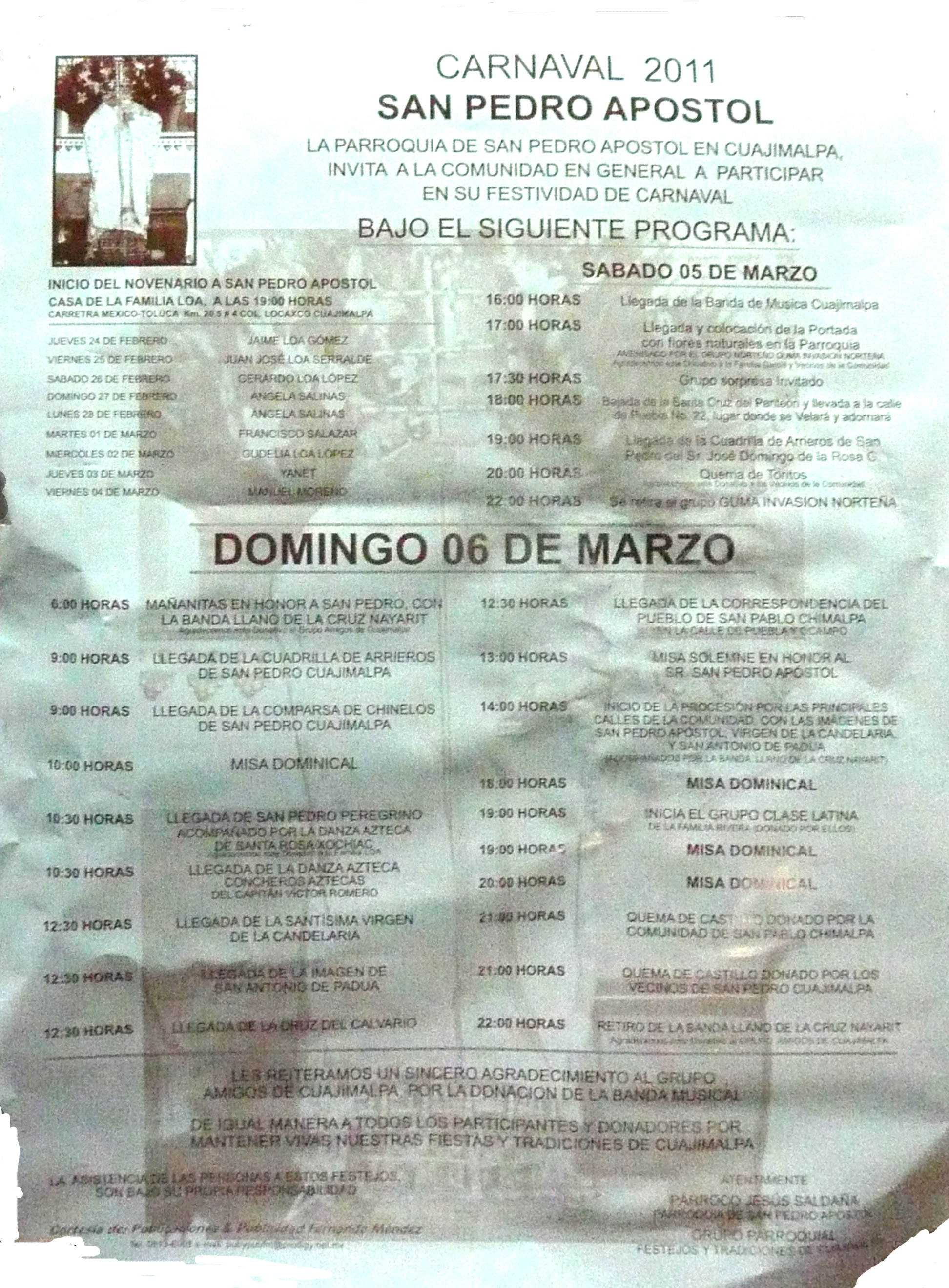 Programme of the celebration of Carnival in the town of San Pedro Cuajimalpa, Distrito Federal, Mexico. Belonging to 2011, and is original work in the festival organizing committee, headed by the pastor Jesus Saldaña and church groups, being printed courtesy of Publications and Publicity Fernández Méndez, inhabitants of the same population.